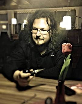 Lukas Barta, czech writer and a poet